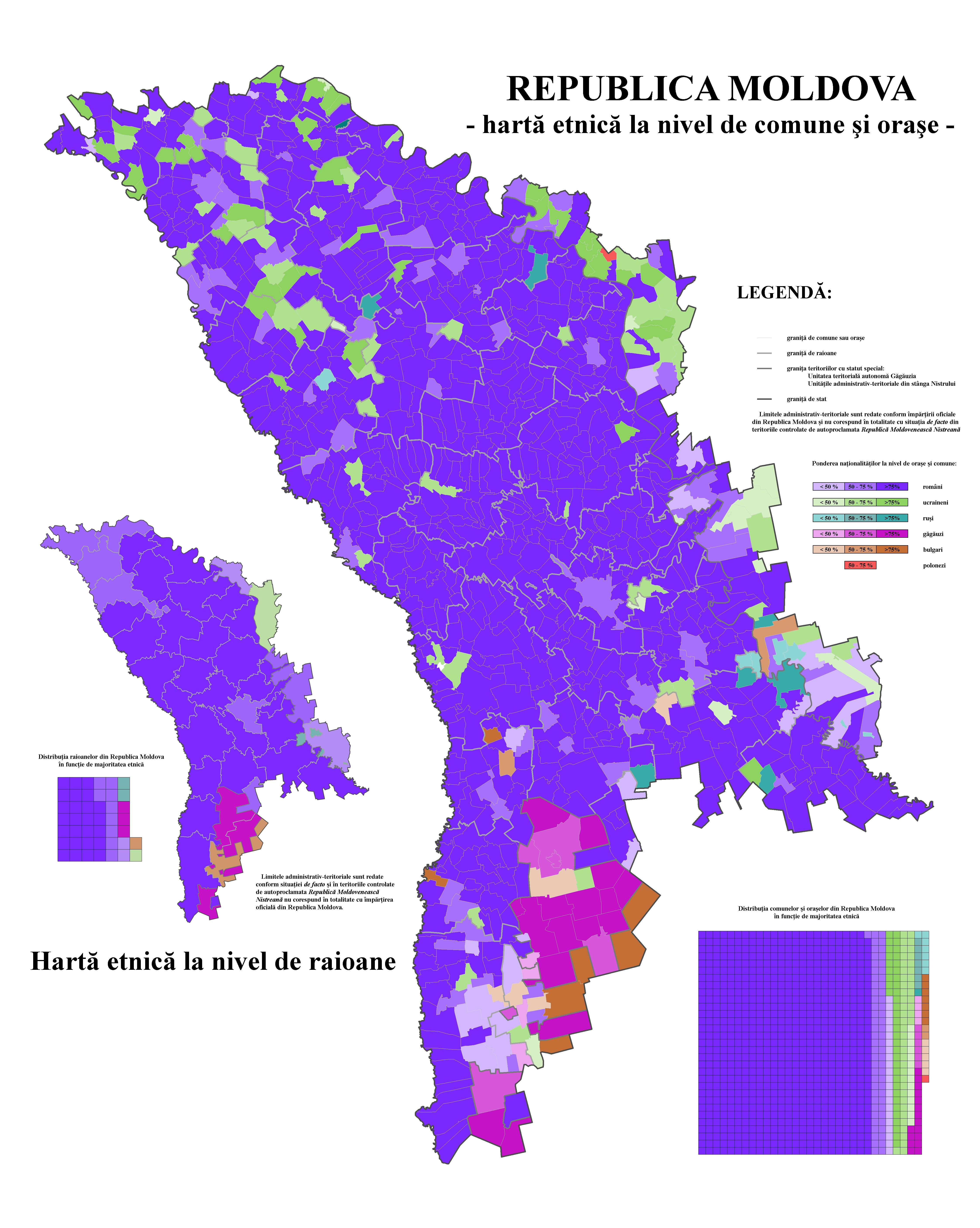 Biased ethnic map of Moldova. 2004